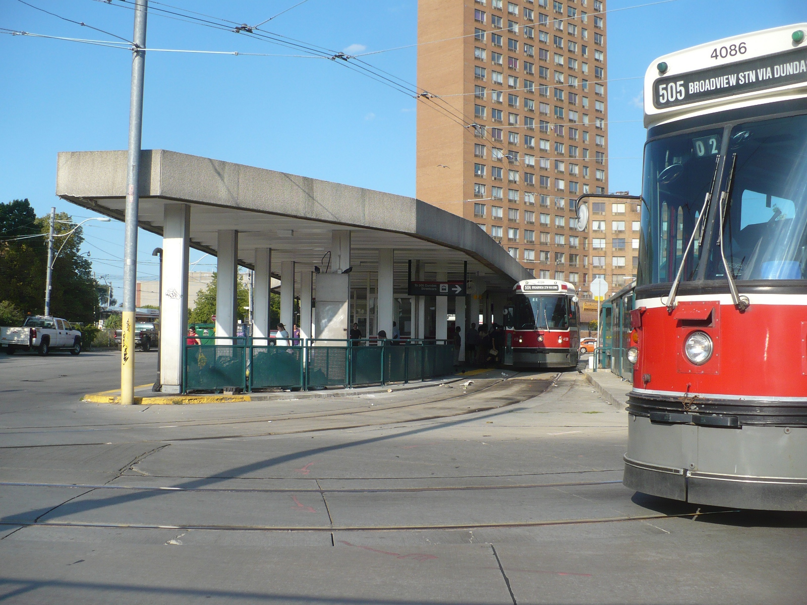 Dundas West subway station in Toronto. View of the streetcar platforms.